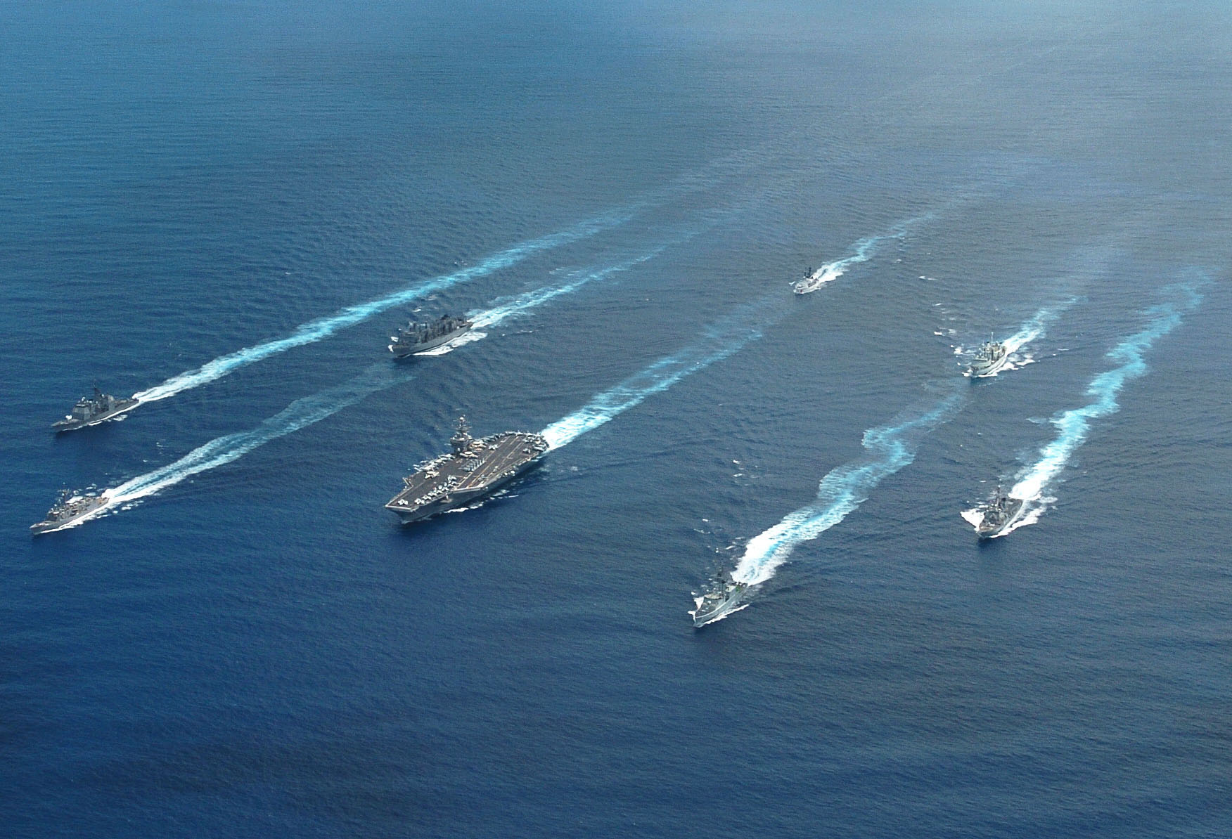 Pacific Ocean (June 25, 2004) – Ships from the United States and Canada navigate around the aircraft carrier USS John C. Stennis (CVN 74) while underway in the Pacific Ocean during a multi-national photo exercise. Stennis and embarked Carrier Air Wing Fourteen (CVW-14) are at sea on a scheduled deployment, and is expected to participate in Rim of the Pacific (RIMPAC) 2004. RIMPAC is the largest international maritime exercise in the waters around the Hawaiian Islands. This years exercise will include seven participating nations; Australia, Canada, Chile, Japan, South Korea, Britain and the United States. RIMPAC is intended to enhance the tactical proficiency of participating units in a wide array of combined operations at sea, while enhancing stability in the Pacific Rim region. U.S. Navy photo by Photographer's Mate 2nd Class Jayme Pastoric (RELEASED)